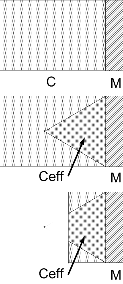 Gurney equations explosives engineering - effective mass of a thin charge.